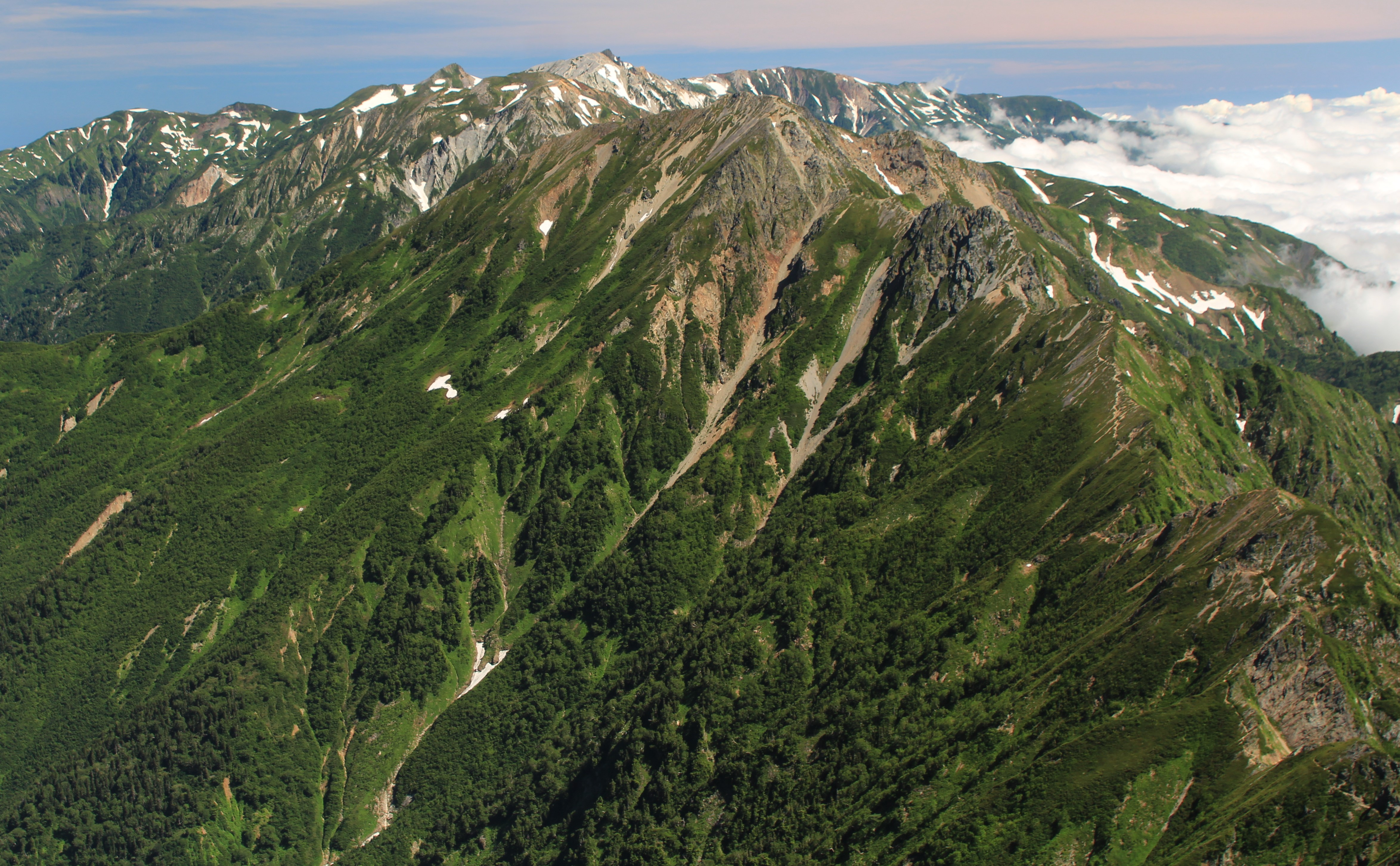 Mount Goryu seen from Mount Kashimayari in Ushirotateyama Mountains (Hida Mountains), Japan.